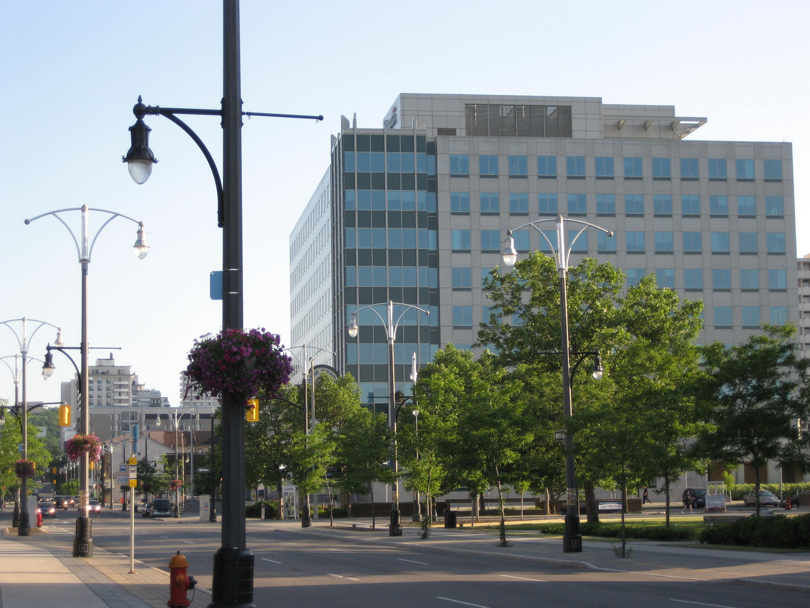 Bay Street Federal Building, downtown Hamilton, Ontario